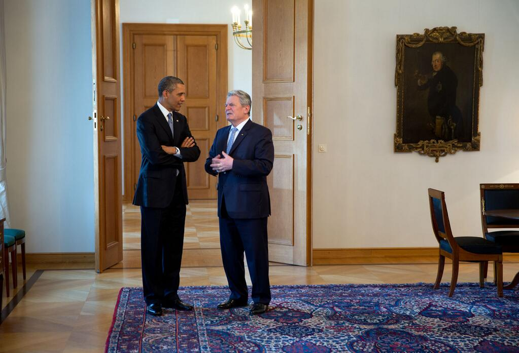 President Barack Obama of the United States and President Joachim Gauck of Germany in Schloss Bellevue in Berlin on 19 June 2013.